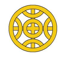 Coat of arms of Sonepur State Source: David F. Phillips, Emblems of the Indian States